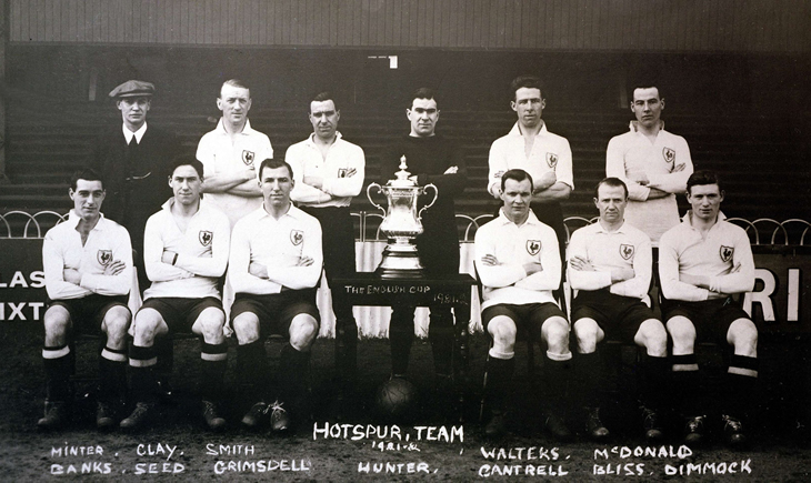 The Tottenham Hotspur FC that won the FA Cup, posing with the trophy.